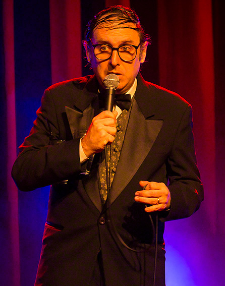 Neil Hamburger performing at the Crap Comedy Festival in January 2016. The festival takes place at Parkteateret in Oslo.